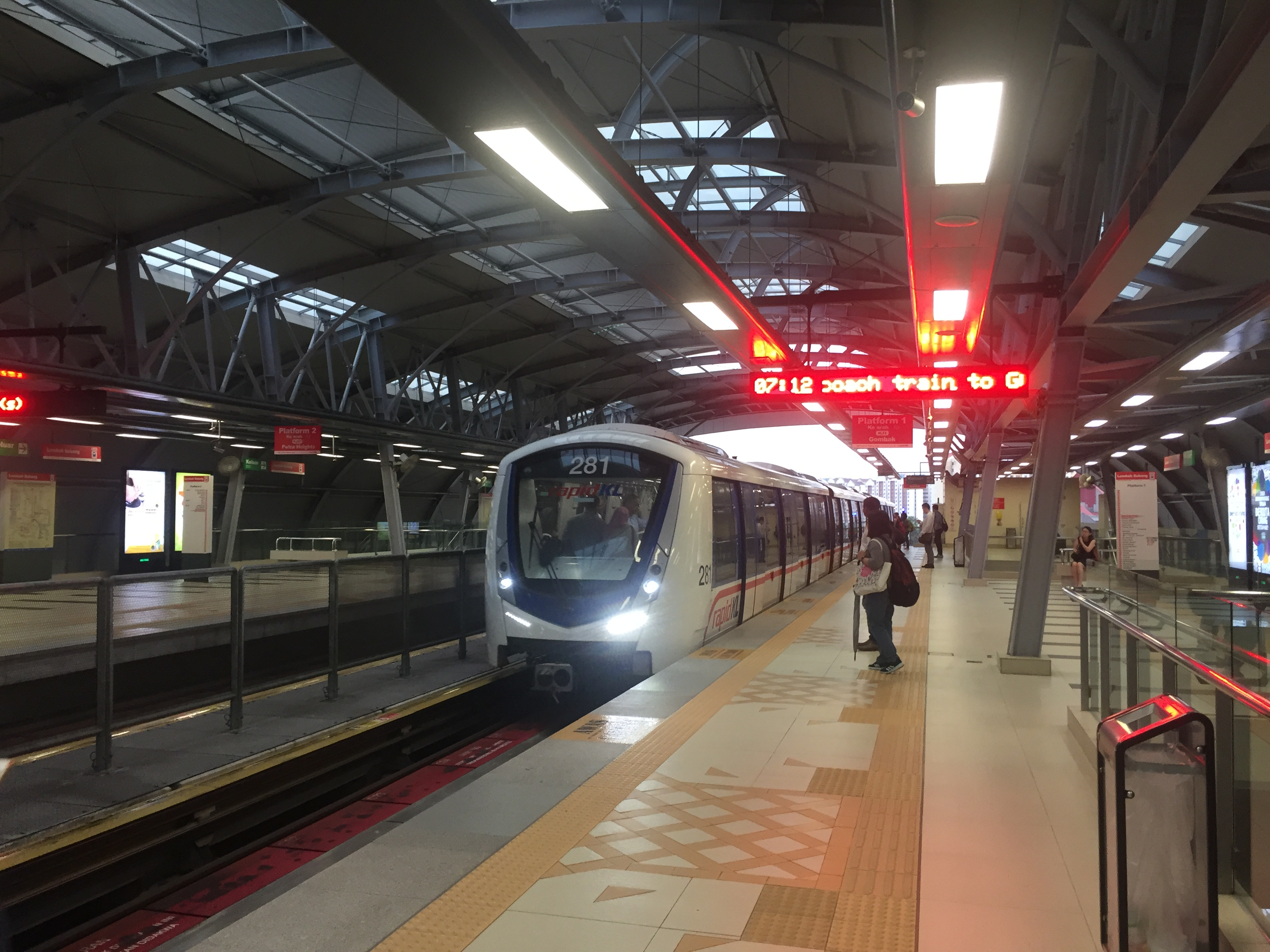 KLAV Set 81 approaching Lembah Subang Platform 1 towards Gombak.